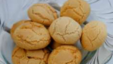 8-9 visible baegas, surrounded by blue fabric.